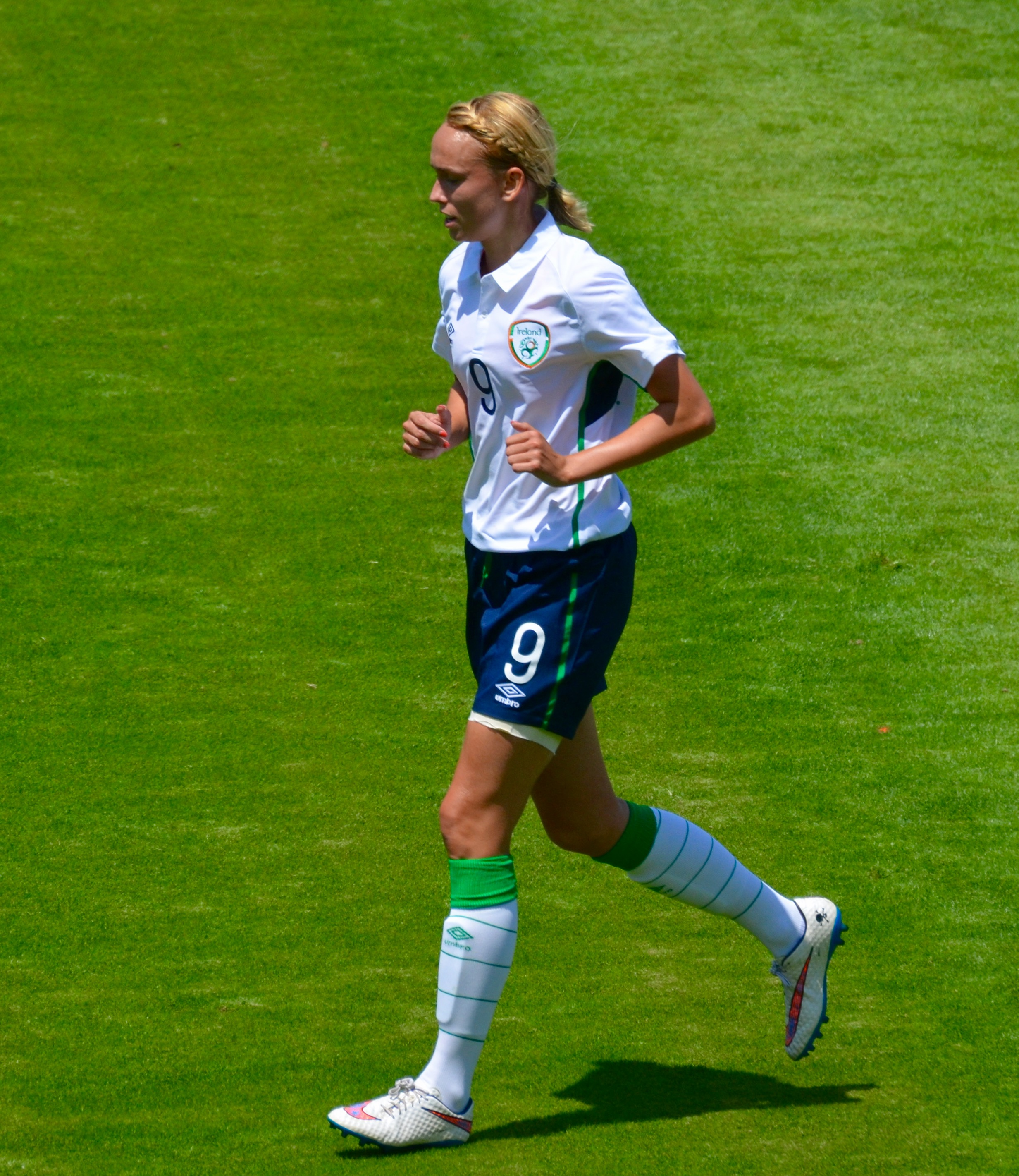 Stephanie Roche playing for the Republic of Ireland in San Jose, California on 10 May 2015.